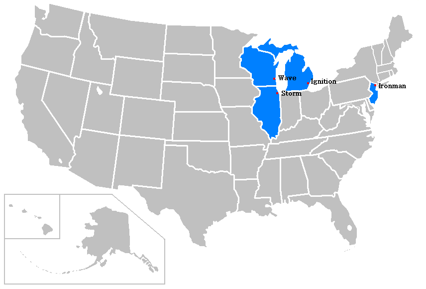 XSL teams